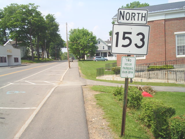 Maine State Route 153 heading northbound through Dover-Foxcroft, Maine. The entirety of Route 153 is in Dover-Foxtrot.